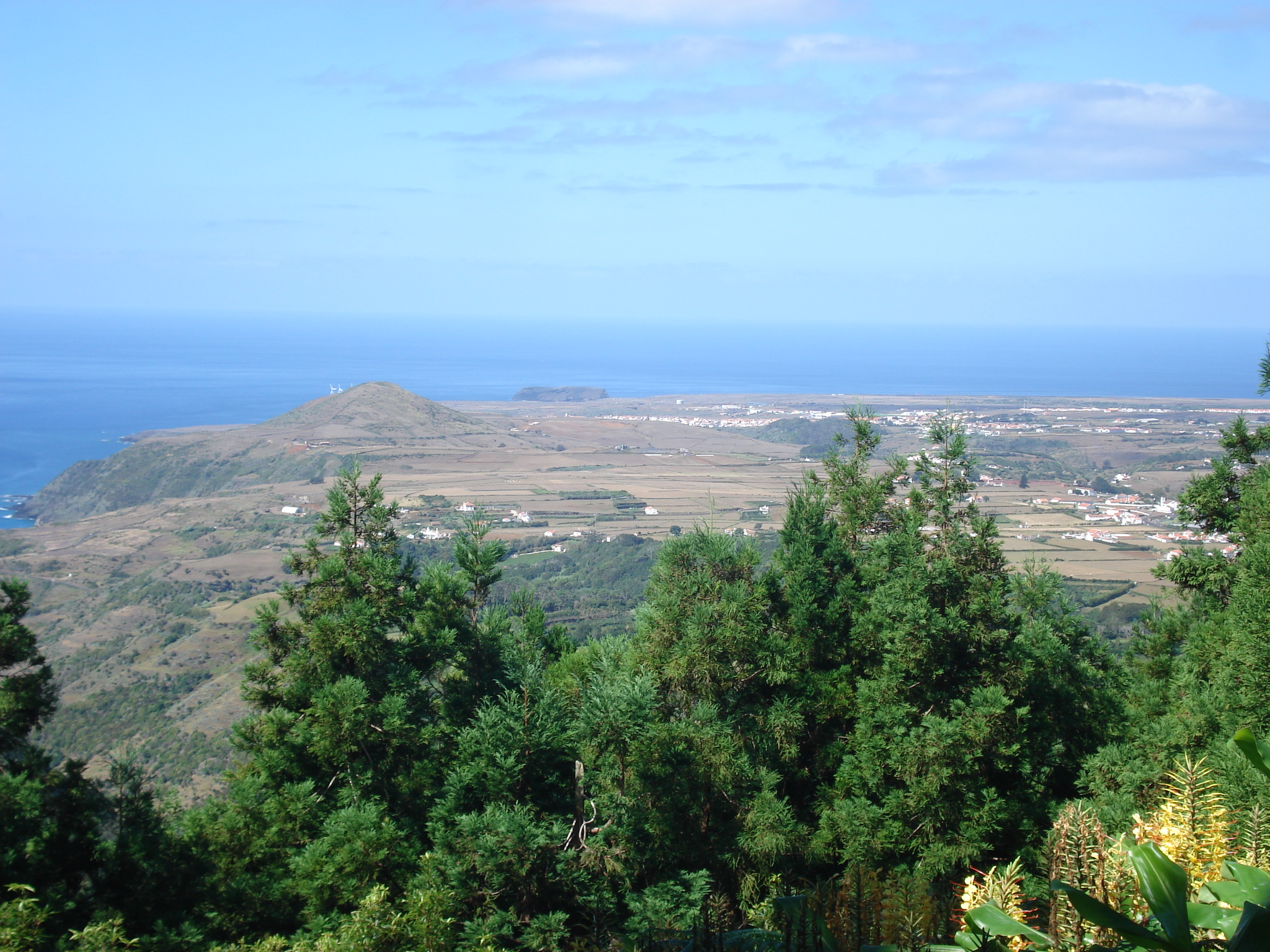 Western half of Vila do Porto, Santa Maria (Azores) as seen from Miradouro dos Picos